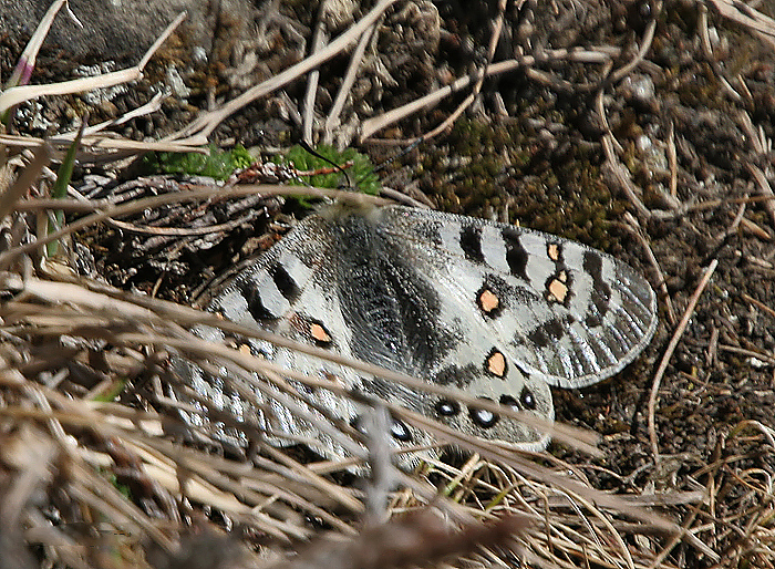 Common Blue Apollo Parnassius hardwickii. Shot taken at Kullu distt. of Himachal Pradesh, India during Sar Pass Trek at Biskeri Ridge (13800 ft.).